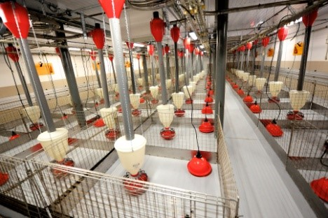 Inside Delacon's Performing Nature Research Center